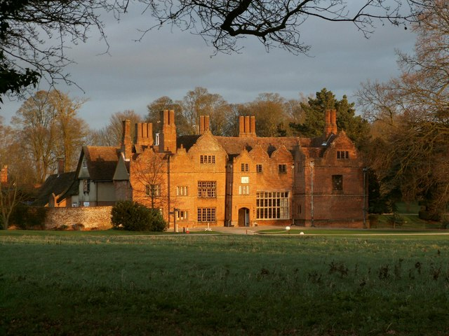 Spains Hall This beautiful hall is close to the village of Finchingfield. It was built from red brick towards the end of the 16th century and timber-framed extensions were added during the 17th century.